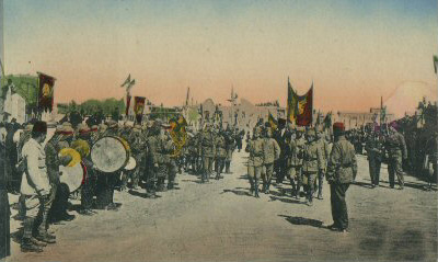 Military music band on March the 8th (Proclamation of King Faisal I as King of Syria).